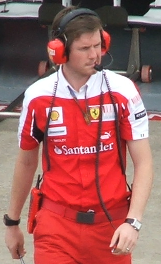 Race engineer Rob Smedley at the 2010 Canadian Grand Prix.